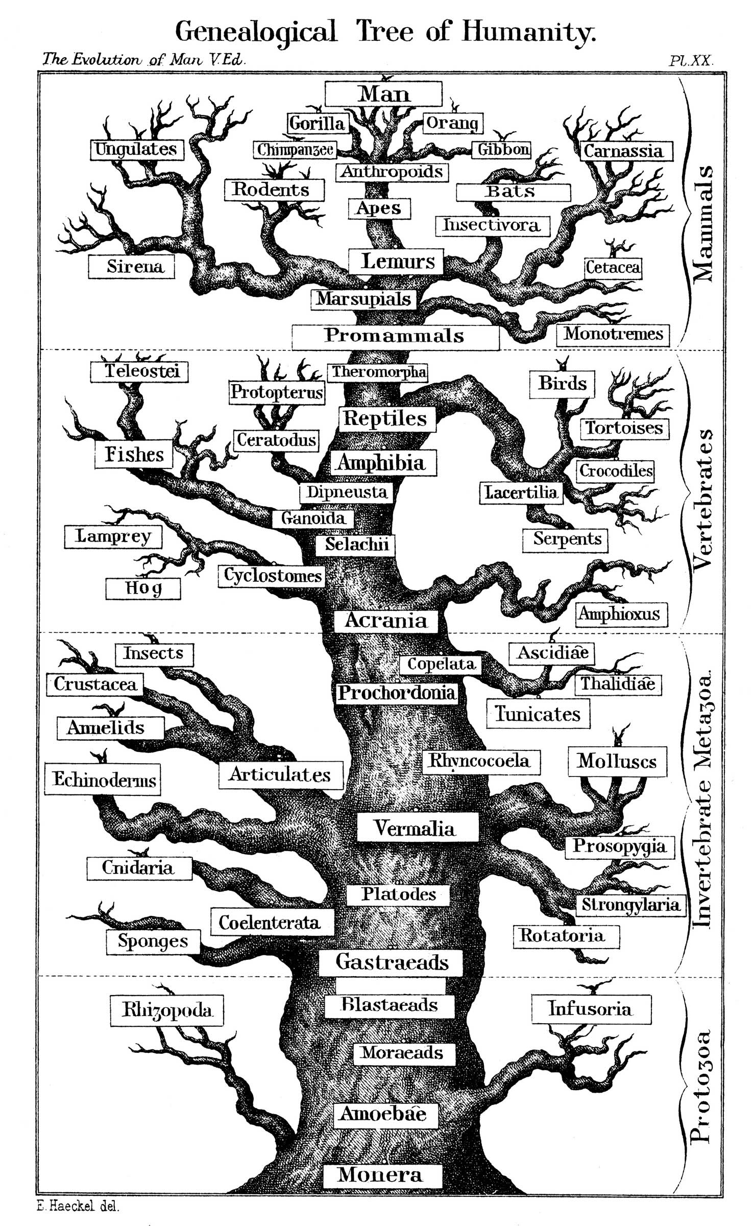 Ernst Haeckel, Family Tree of the Human Race, ca. 1877. (German version originally in: Ernst Haeckel: Anthropogenie oder Entwickelungsgeschichte des Menschen. Gemeinverständliche wissenschaftliche Vorträge über die Grundzüge der menschlichen Keimes- und Stammes-Geschichte. Leipzig 1874. Tafel XV)